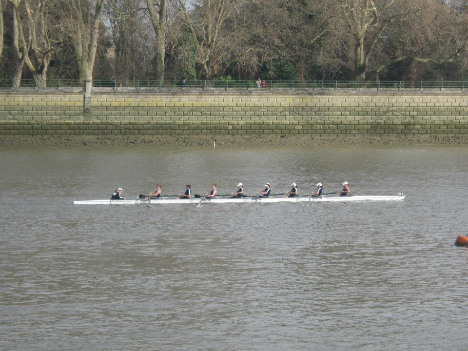 OUWBC racing at WeHORR 2012